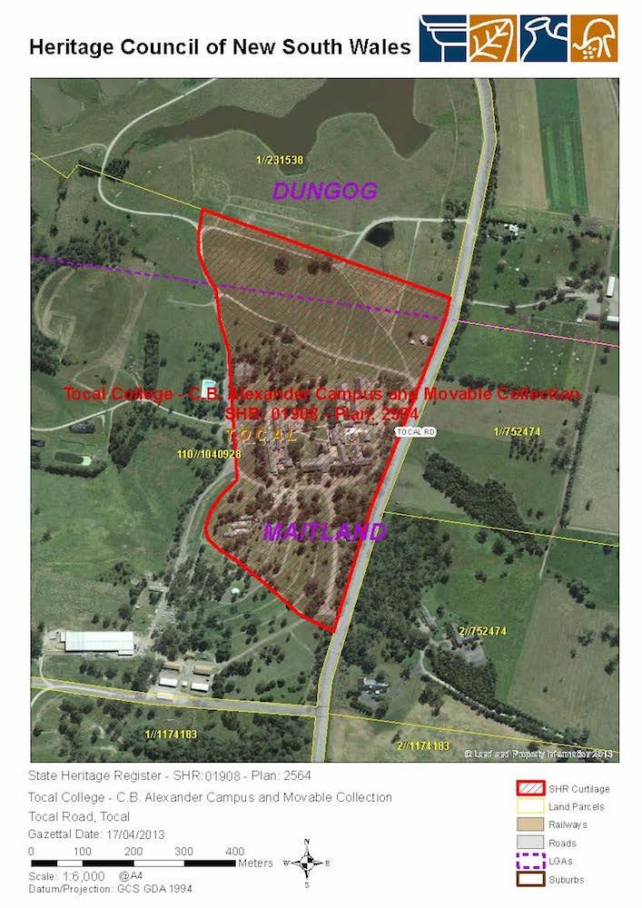 Tocal College: SHR Plan 2564